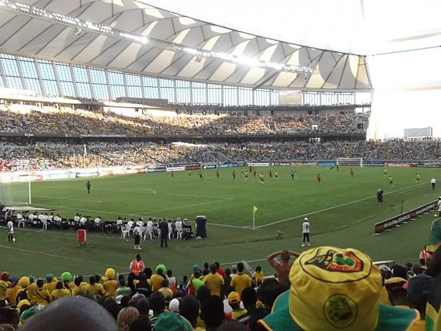 Kwazulu Natal - Durban